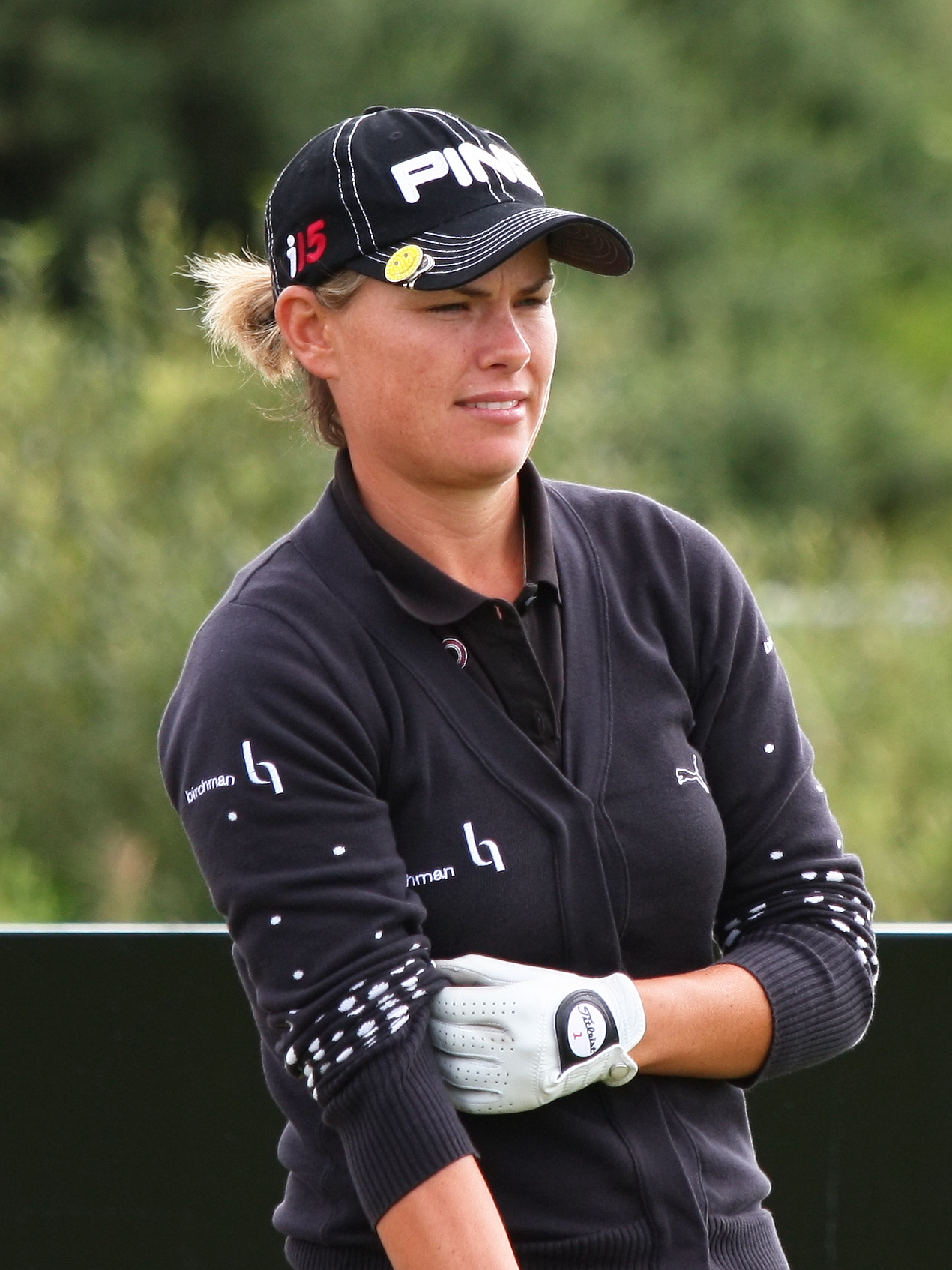 SOUTHPORT, UNITED KINGDOM – JULY 28: Lee-Anne Pace of South Africa on the 10th tee during final practice round before 2010 Ricoh Women's British Open held at Royal Birkdale on July 28, 2010 in Southport, England. (Photo by Wojciech Migda)